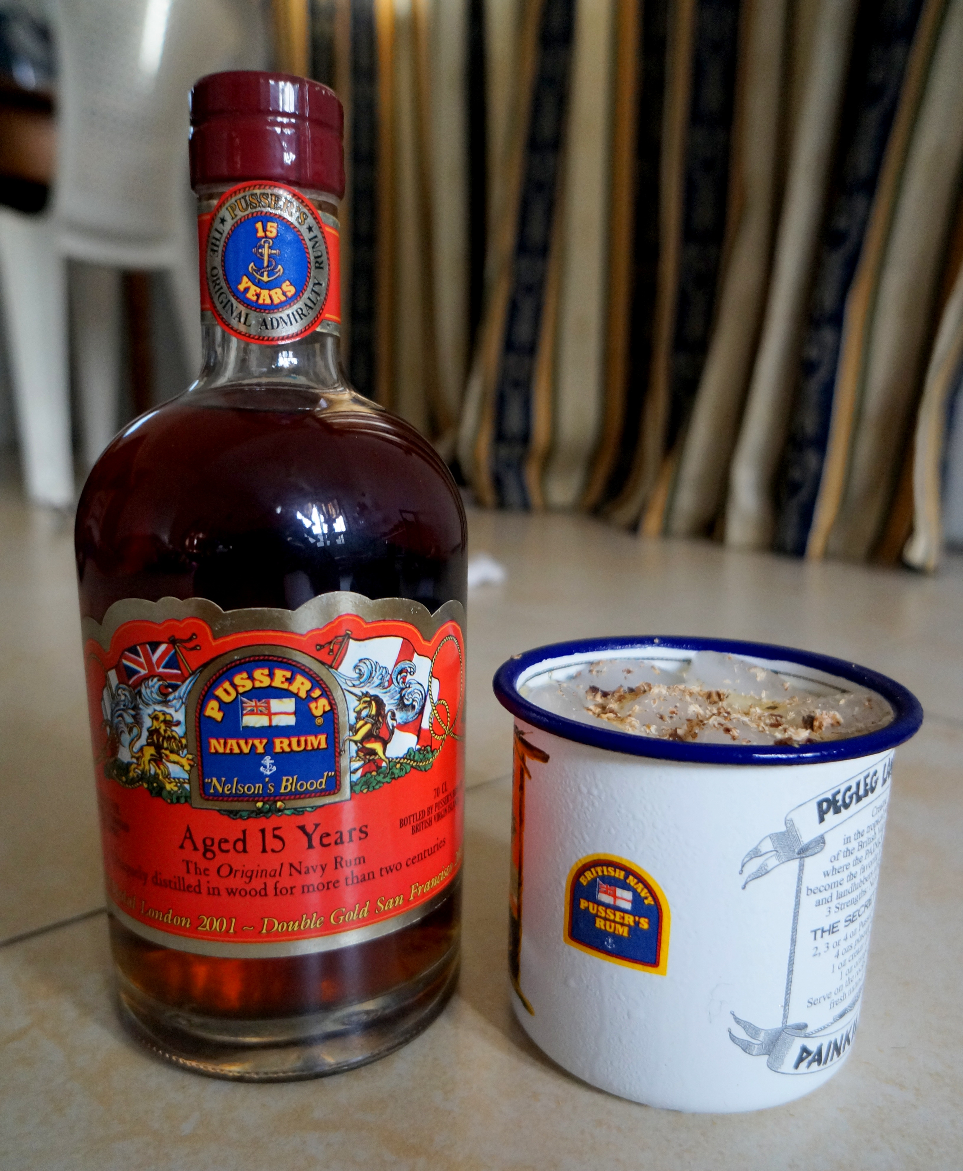 A bottle of Pussers 15 year old rum and a Painkiller cocktail in a Pussers tumbler. More freely usable pictures related to spirits, beer, distilling etc.